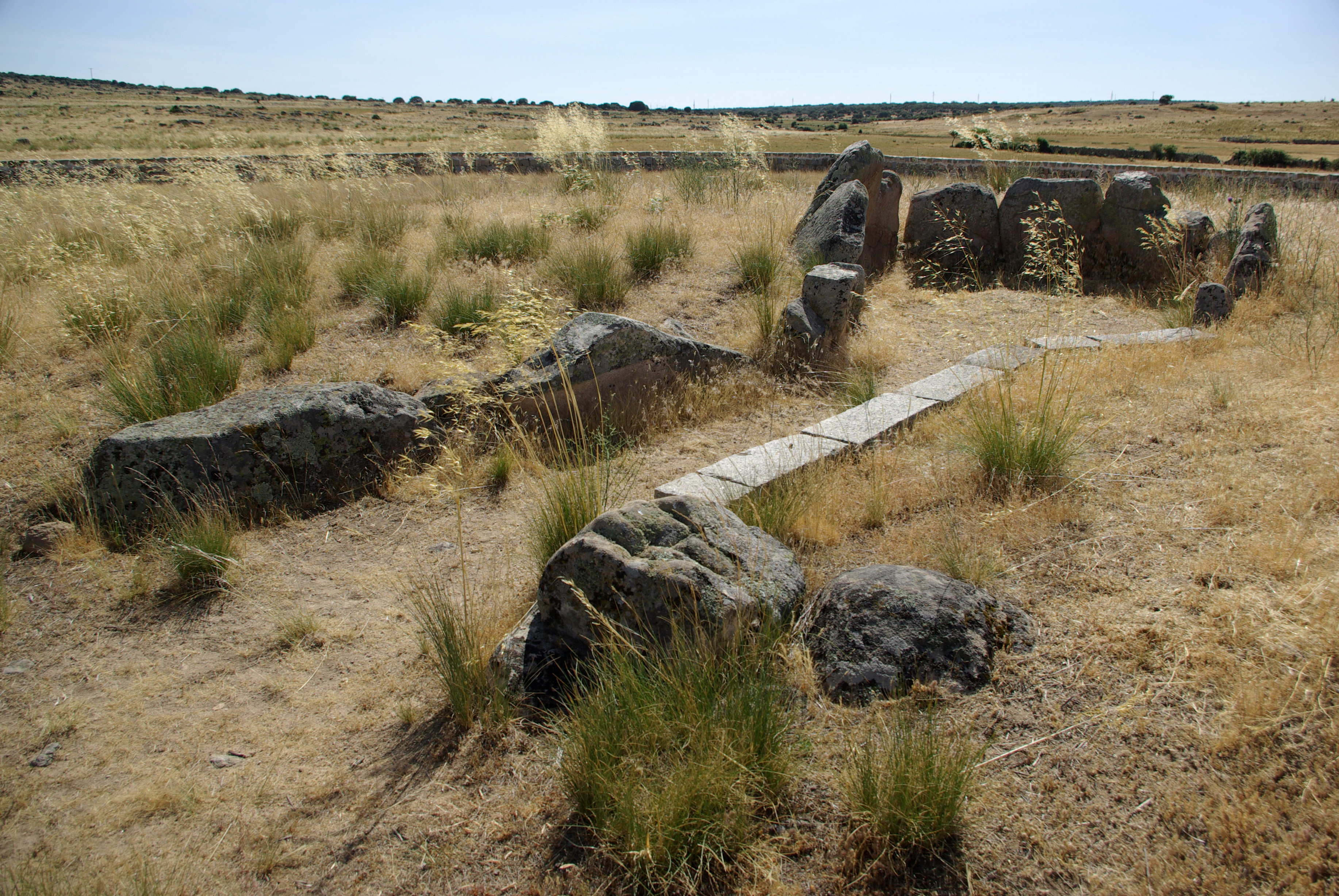 Dolmen of Prado de las Cruces. Bernuy-Salinero (Ávila, Ávila, Spain)